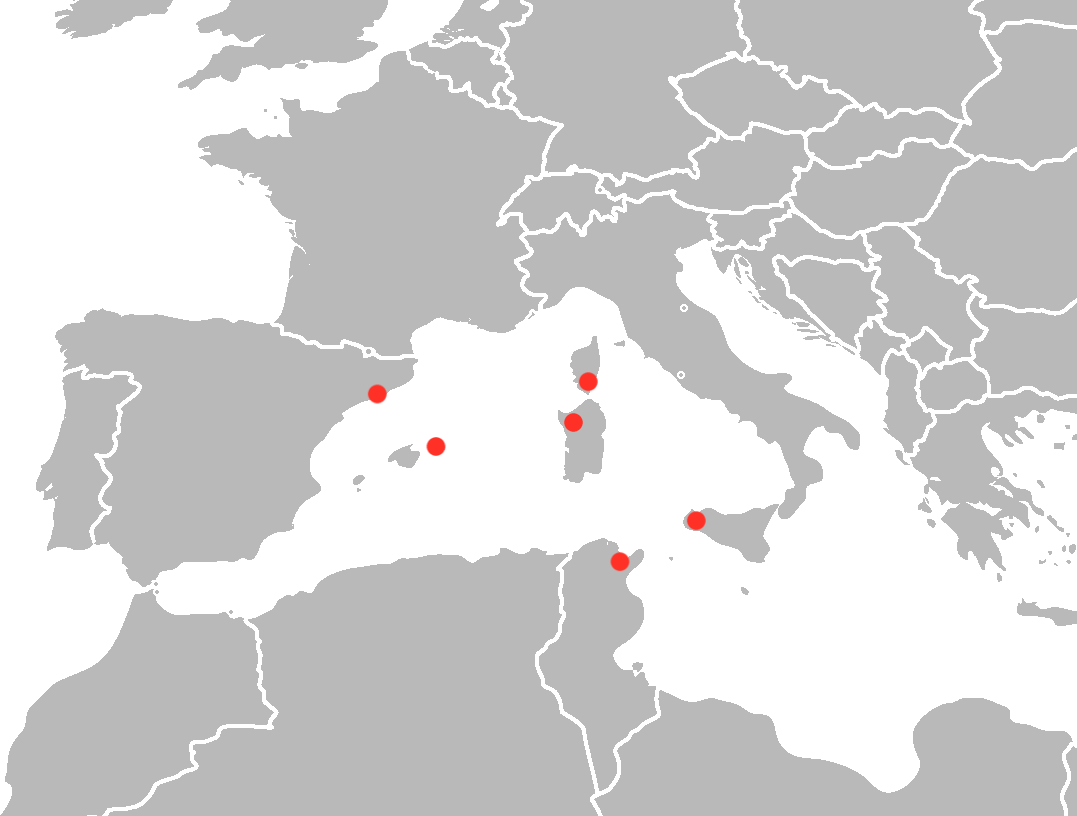 Schmidtea mediterranea distribution after Lázaro et al., 2011. Reference.: E.M. Lazaro, A.H. Harrath, G.A. Stocchino, M. Pala, J. Baguna, M. Riutort, Schmidtea mediterranea phylogeography: an old species surviving on a few Mediterranean islands?, BMC Evolutionary Biology. 11 (2011) 274.